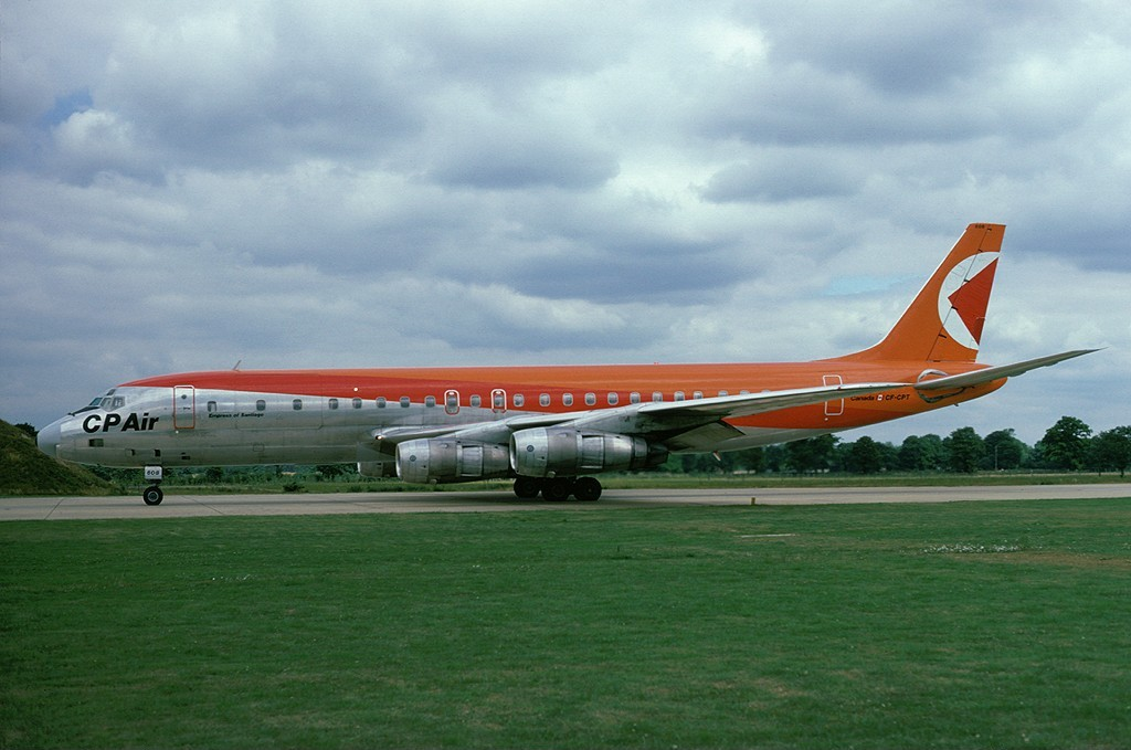 CP Air Douglas DC-8-55CF-Jet at London Gatwick Airport